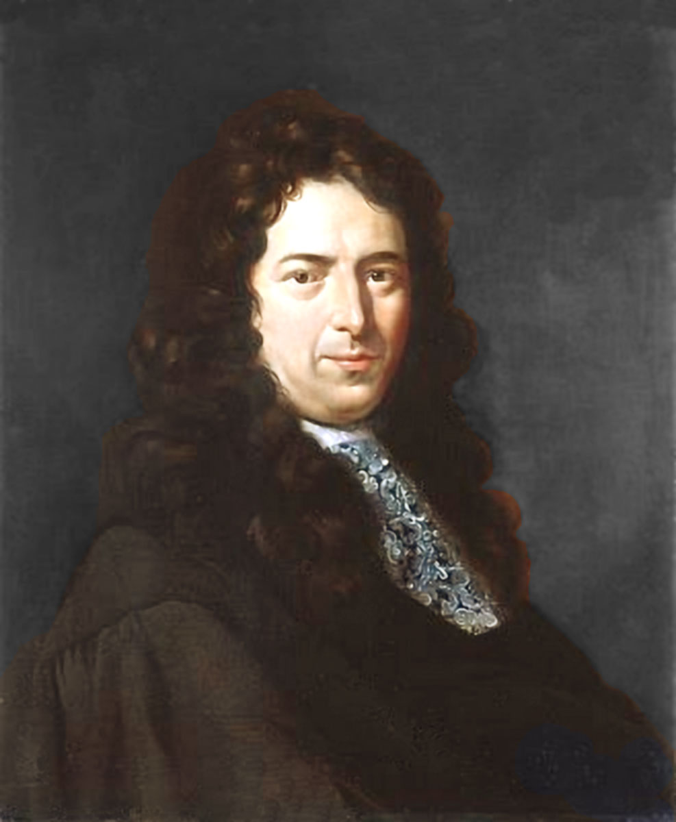 Gerhard Noodt (1647-1725) niederländischer Rechtswissenschaftler